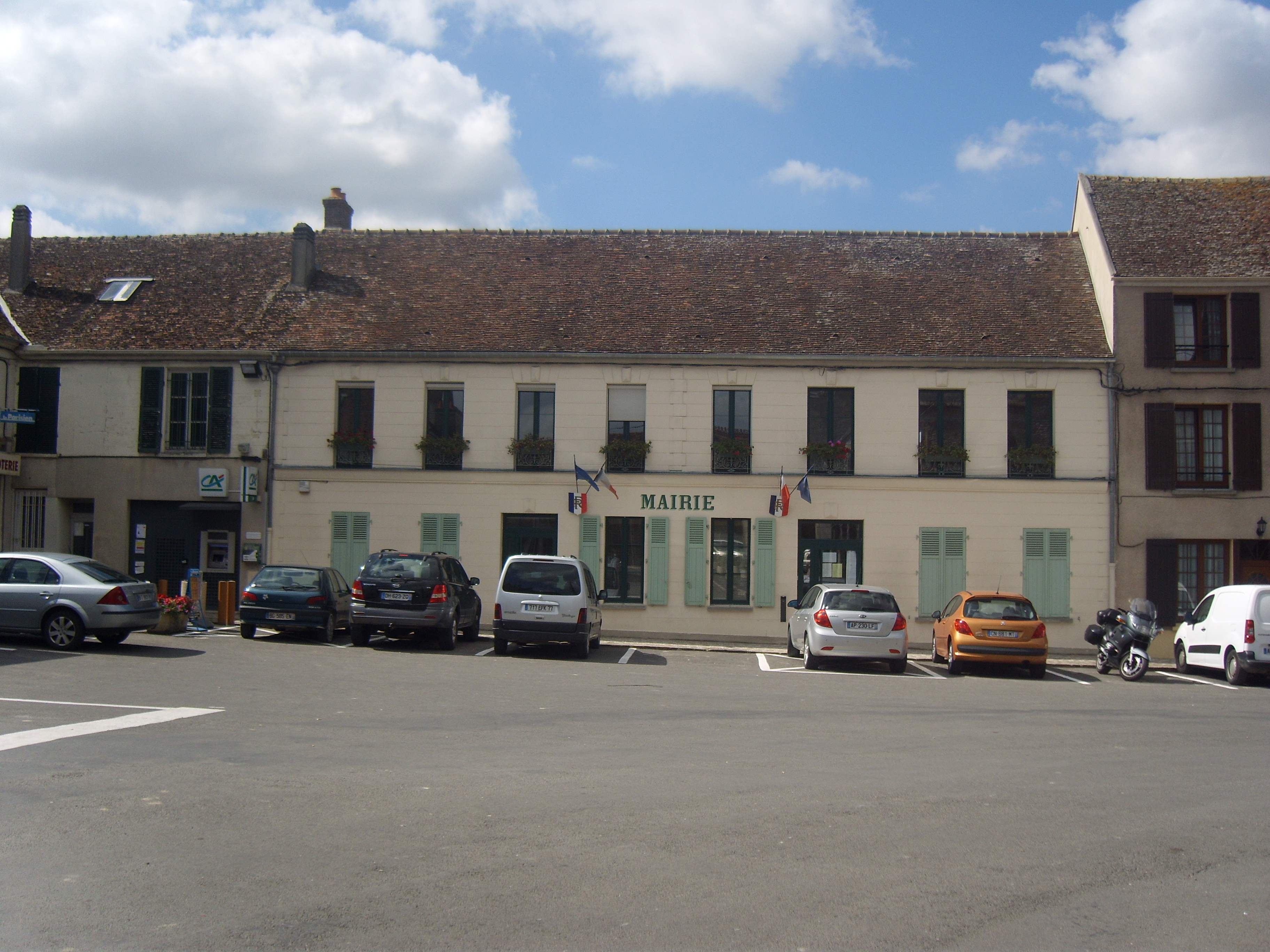 Town hall of Jouy-le-Châtel